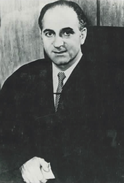 Photograph of the Honorable Edward D. Re